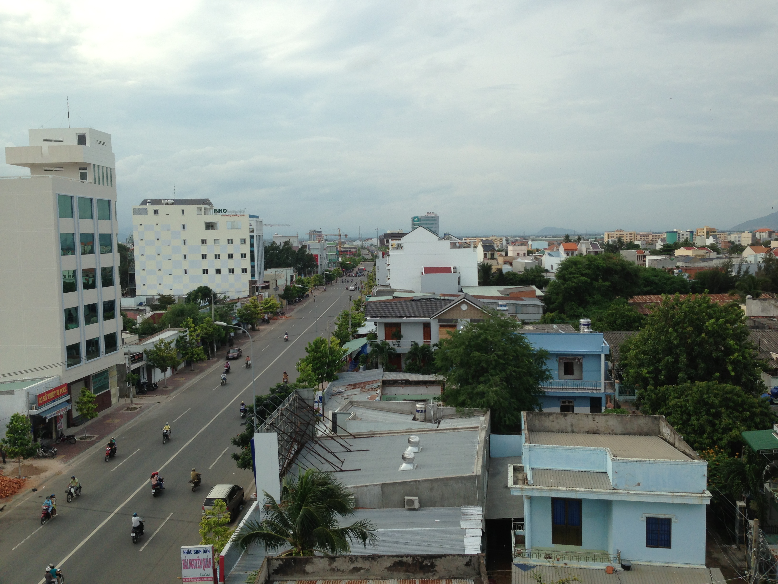 Picture from 2013